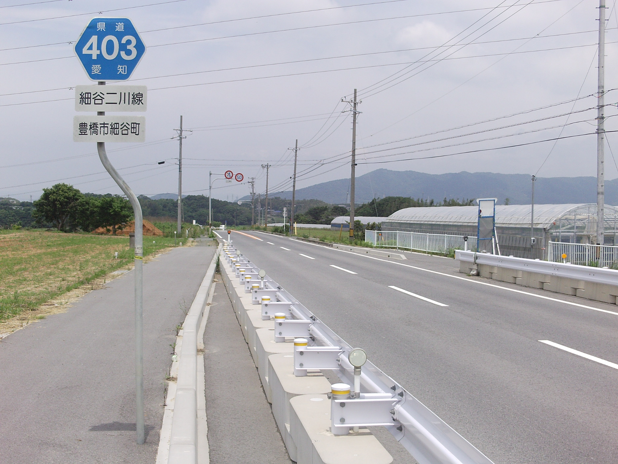 Aichi prefectural road No.403 in Hosoyacho, Toyohashi, Aichi.